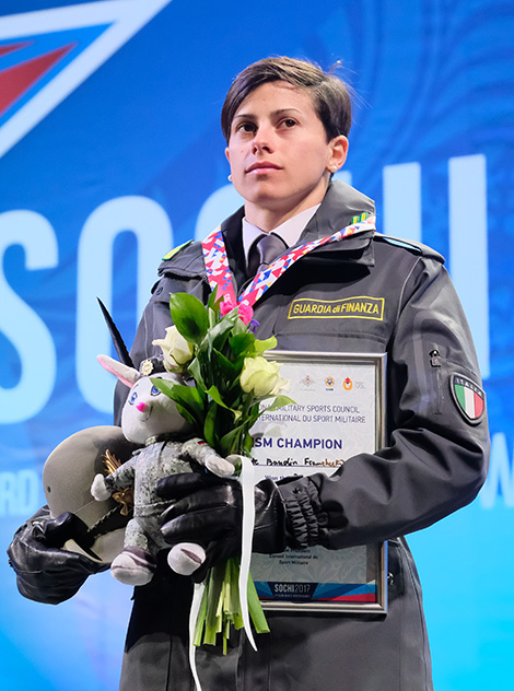 Francesca Baudin at the 2017 Winter Military World Games. Cross-country skiing. Bronze medal in 10 km free style.